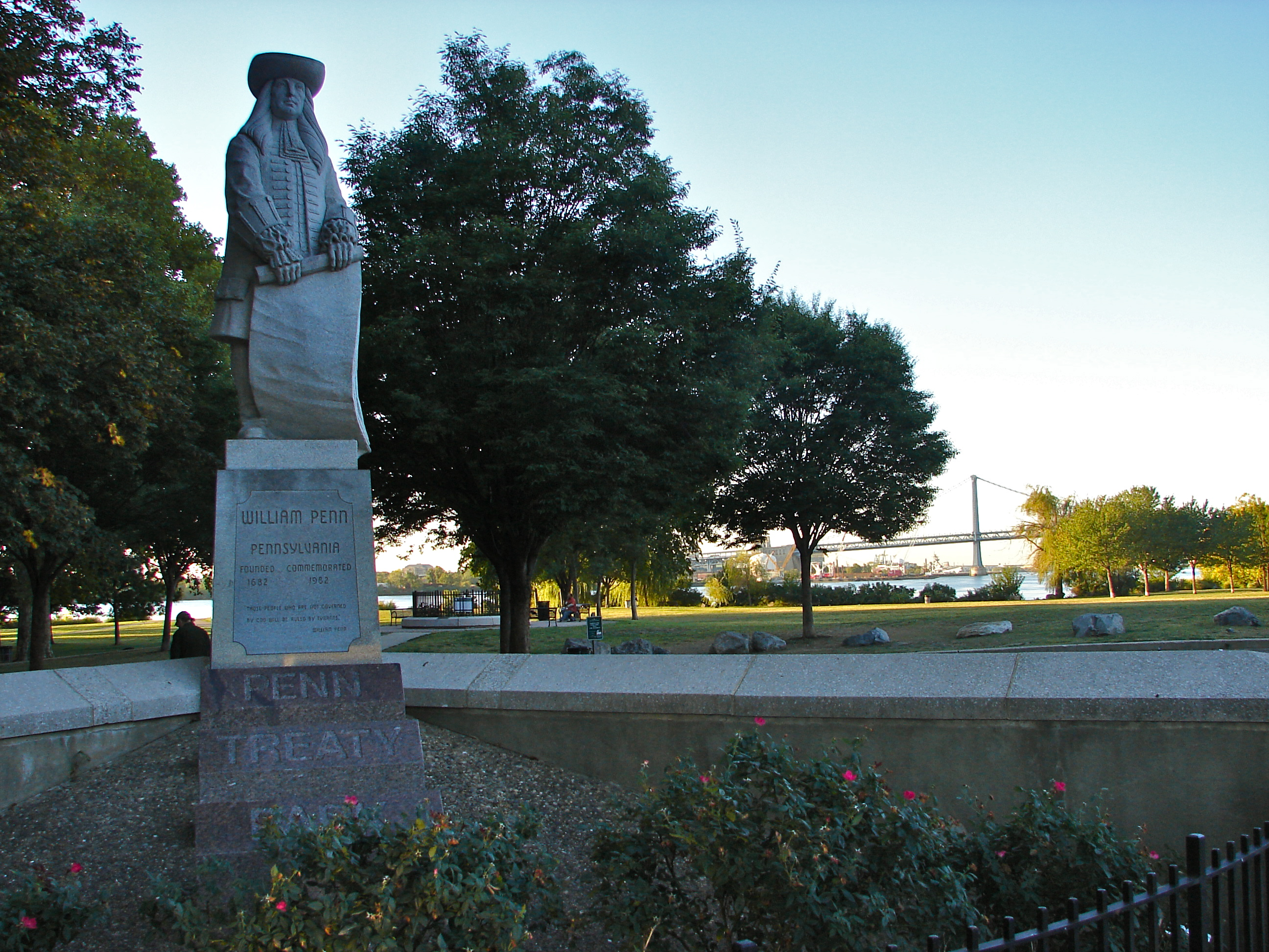 Penn treaty Park - traditional sight of the signing of a traditional treaty between Wm Penn and the indians. Statue of Wm Penn to the left, Ben Franklin Bridge in the background.